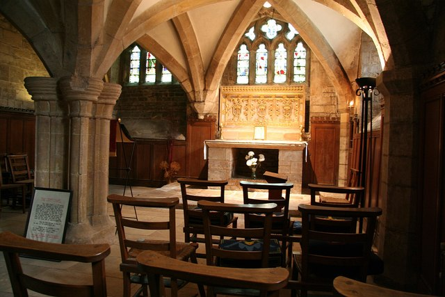 Chapel in the 14th-century crypt of St Wulfram's parish church, Grantham, Lincolnshire